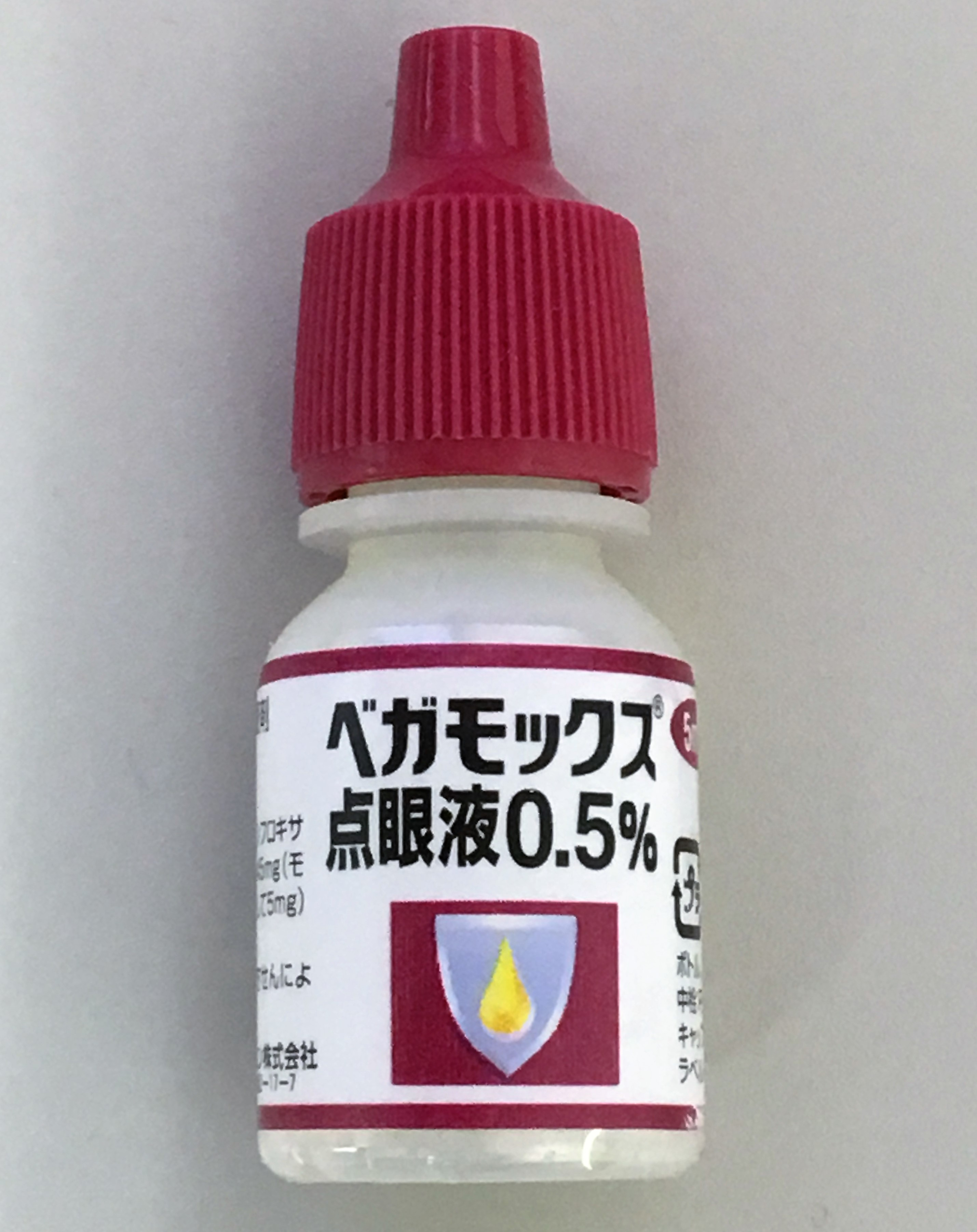 Moxifloxacin (Vigamox) eye drops